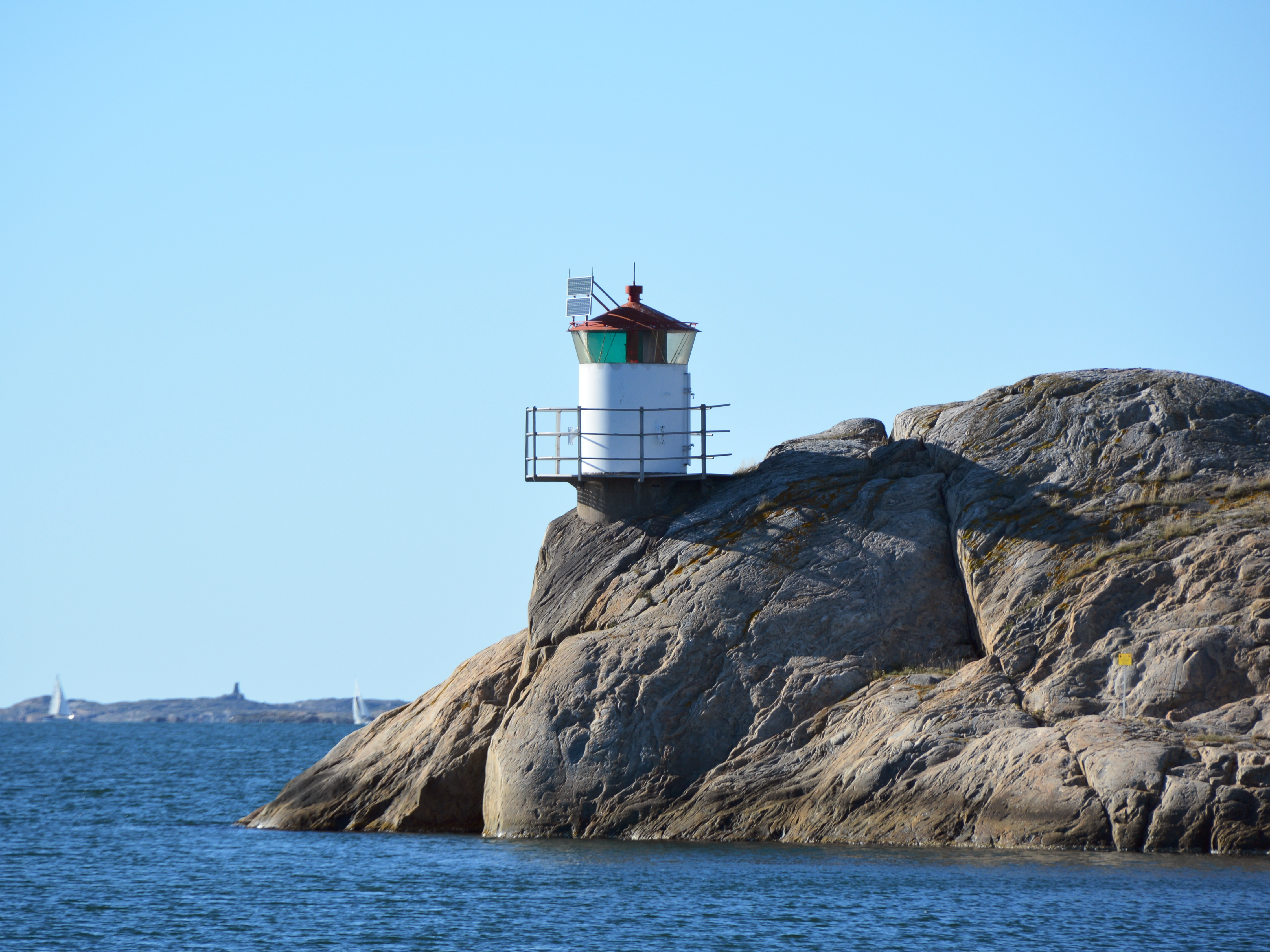 Stora Känsö fyr, Känsö